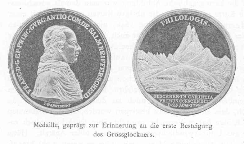 Scan from a historic book